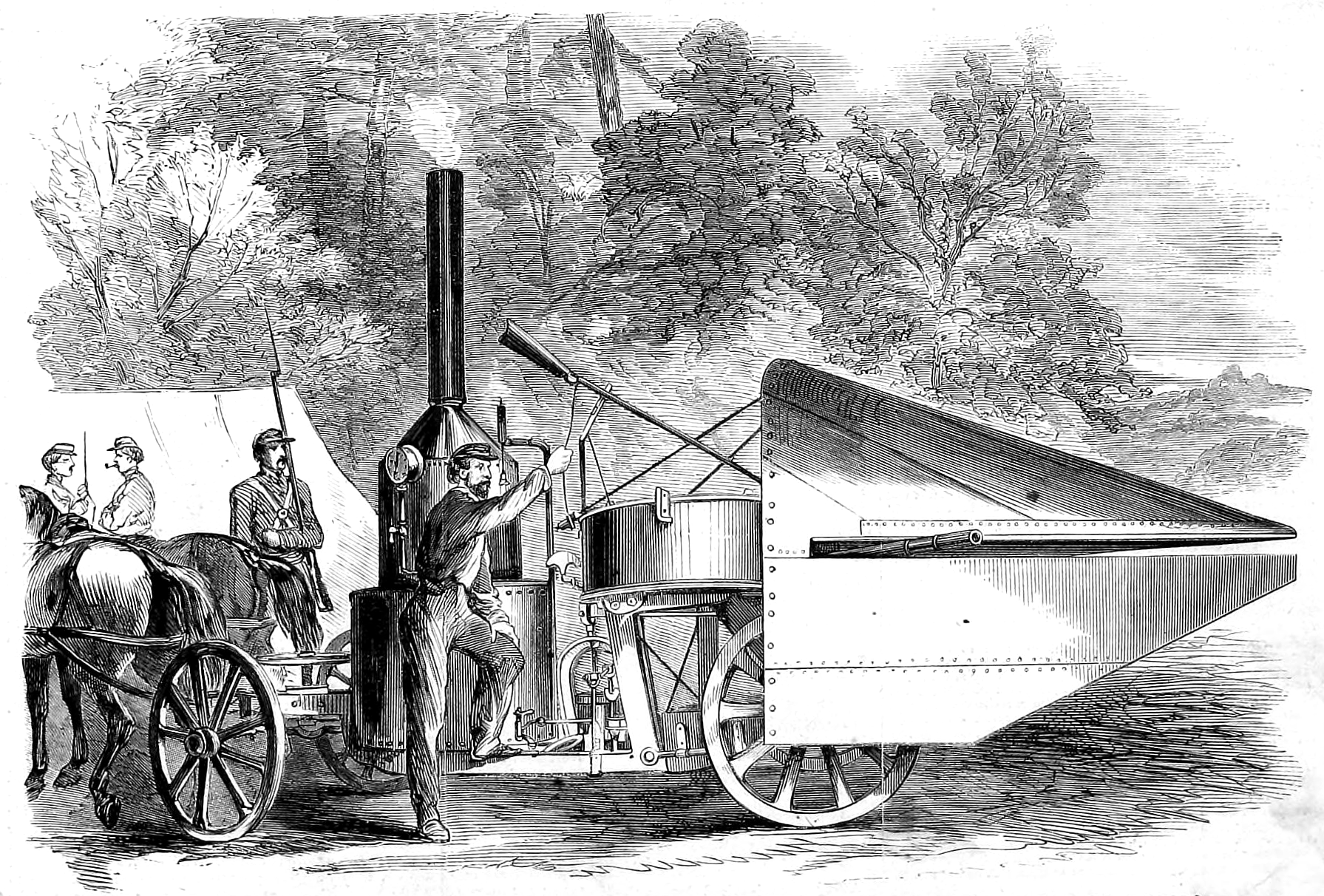 Engraving captioned "The Winans Steam-Gun, recently captured near the Relay House, by Major-General Butler's Command.--From a sketch by our special artist.--See page 2."